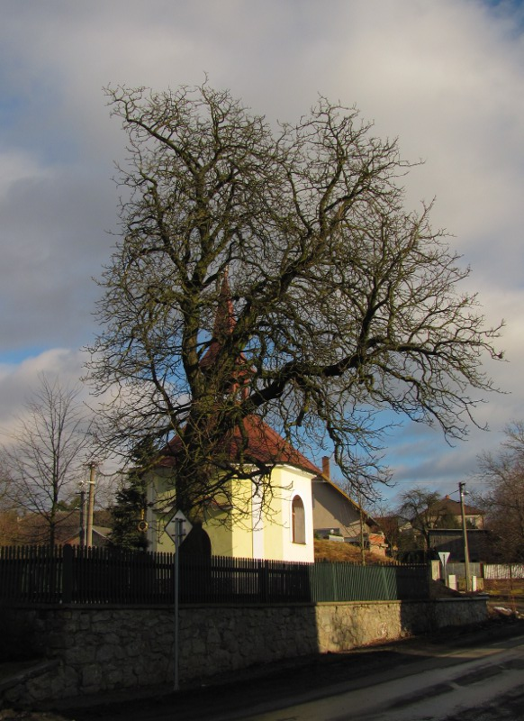 St. Florian chappel in Olesna